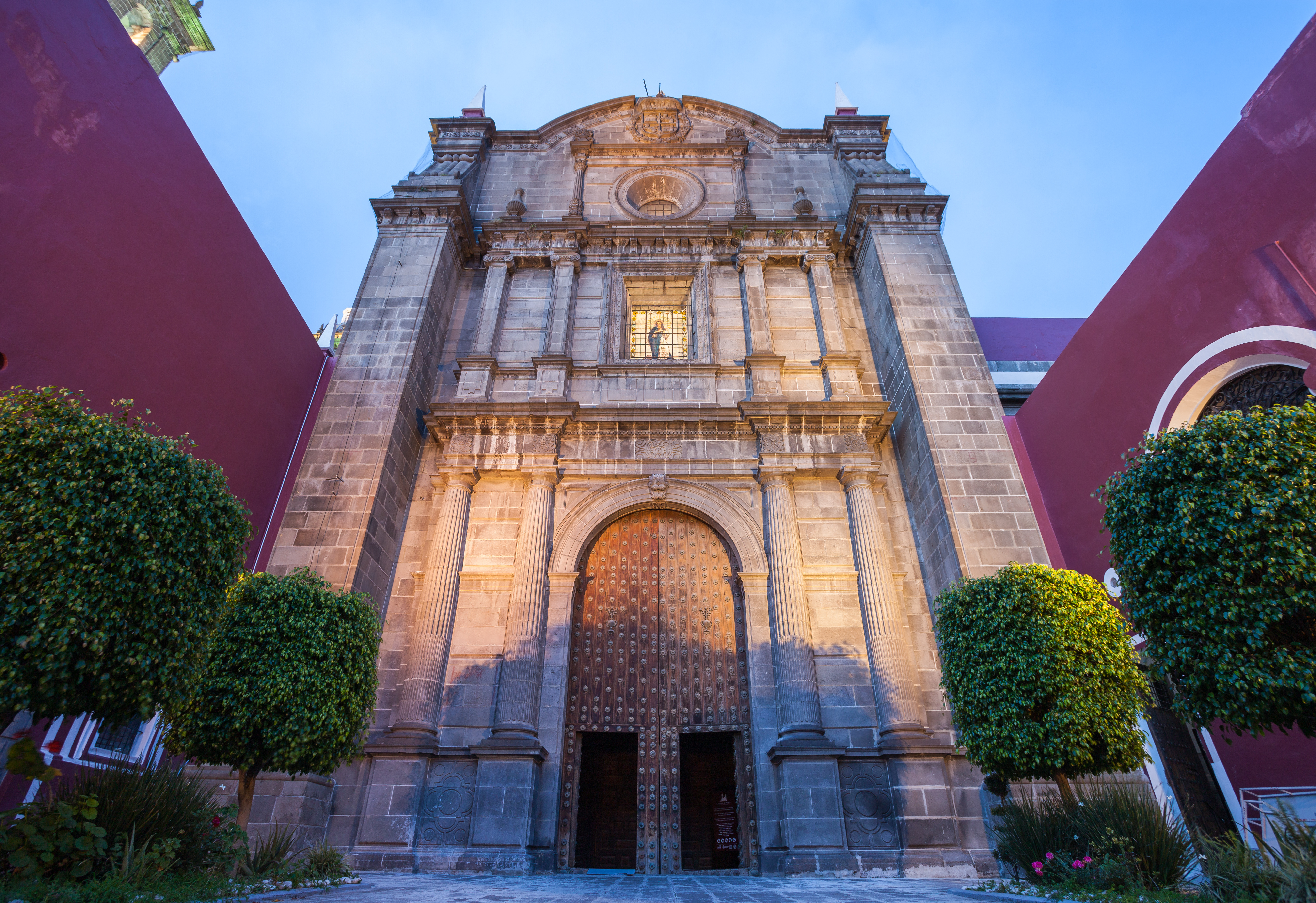 Puebla Cathedral, Mexico